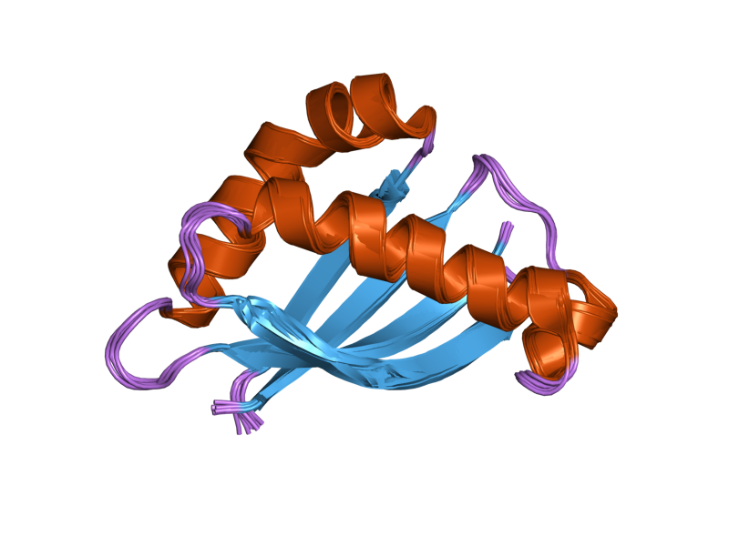 Cartoon representation of the molecular structure of protein registered with 2acm code.